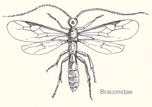 A drawing by Halvard from Norway.